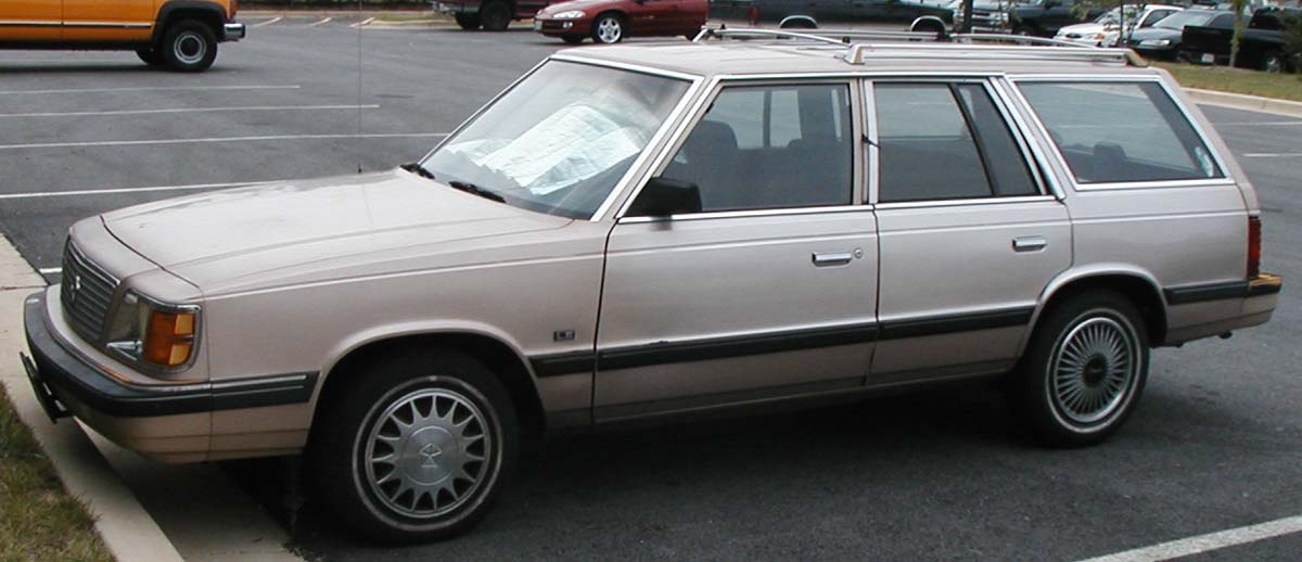 1986-1988 Plymouth Reliant wagon photographed in USA.